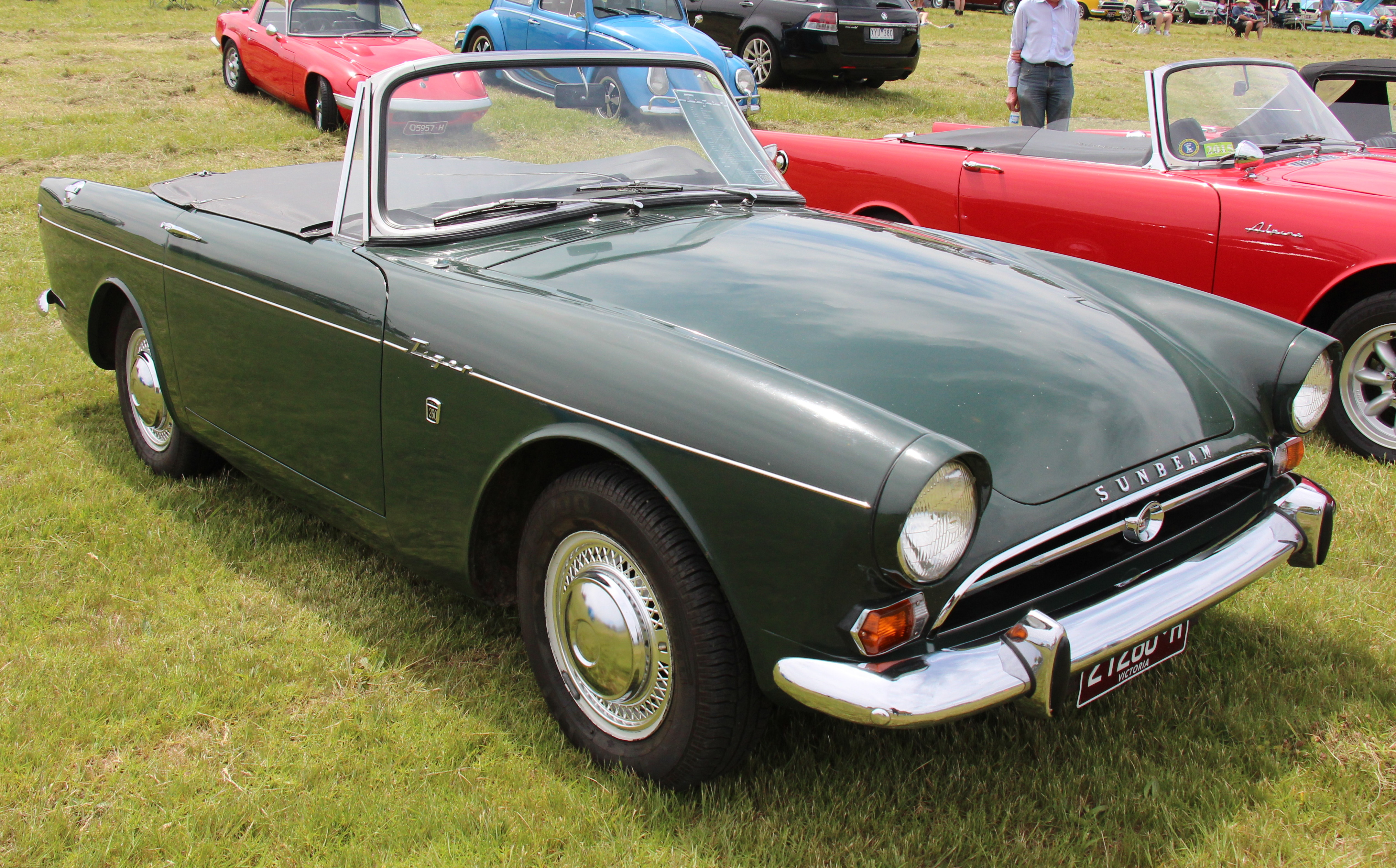 The Sunbeam Tiger was a muscle car version of the British Rootes Group's Sunbeam Alpine roadster. Carroll Shelby produced the prototype, with an engine he was very familiar with; the 260cu in Ford V8 They were built from 1964-67 and only 7085 were made. From 1959-64 the Alpine had quite pointed rear fins, but from the Series IV on the fins were reduced and the grille changed. There was a Mk I and Mk II Tiger which married up to the Series IV and Series V Alpine